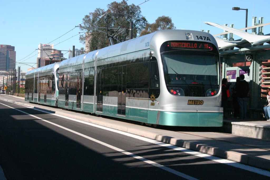 Phoenix Light Rail